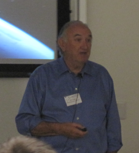 This is a photo of Professor Bob Twiggs at the 2009 Summer CubeSat Developers' Workshop in Logan, Utah, United States on 9 August 2009.